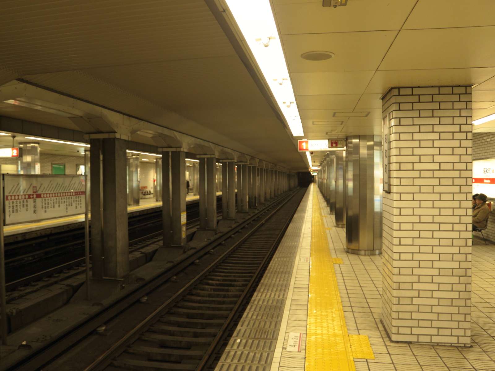 Platform from Shōwachō Station (Osaka).